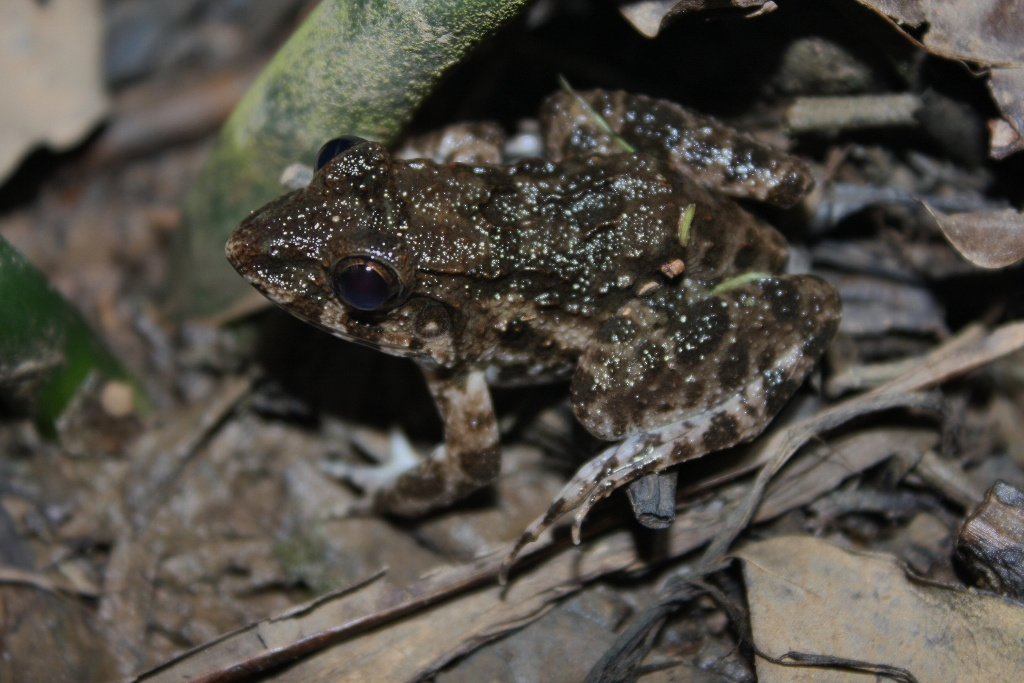 Found in a marshy area next to mangroves.